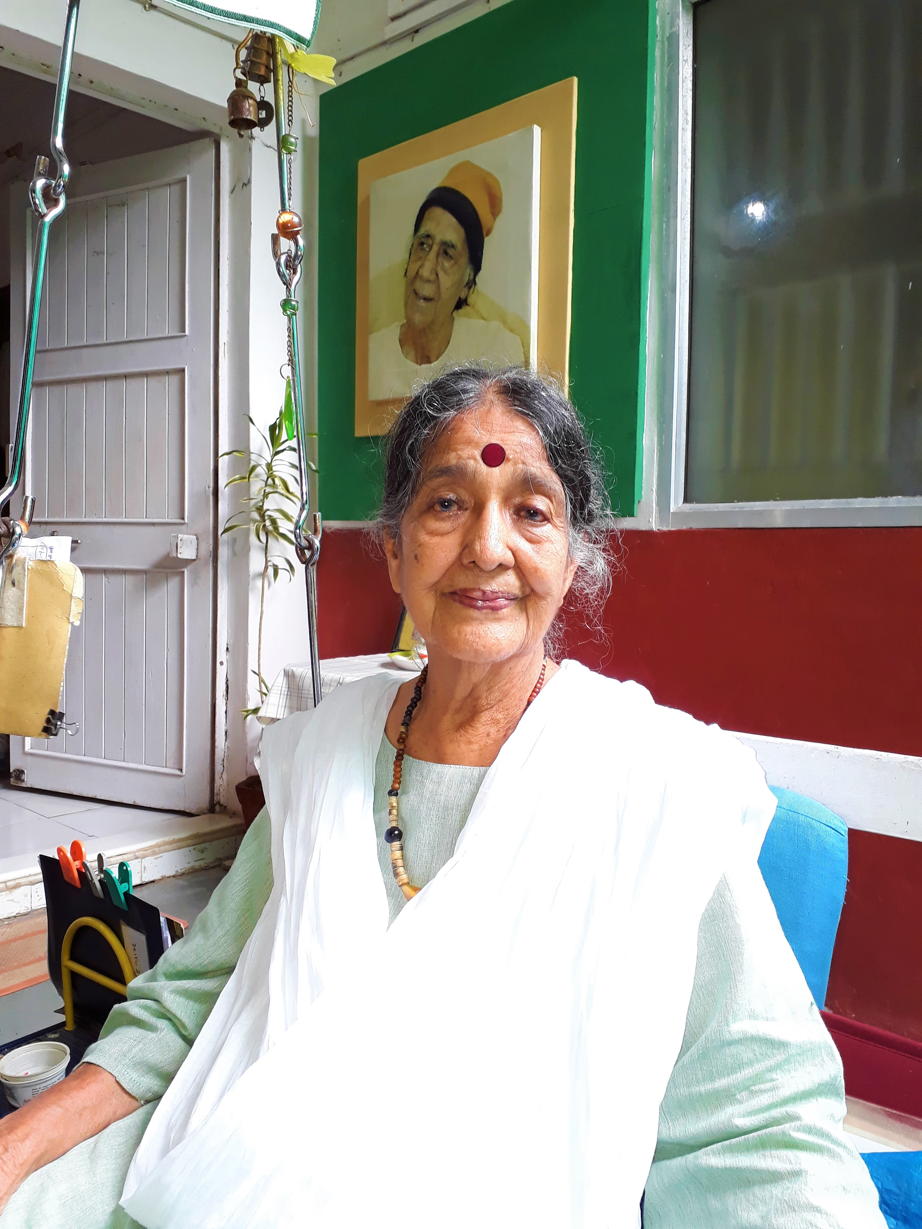 Prominent Gujarati Author.